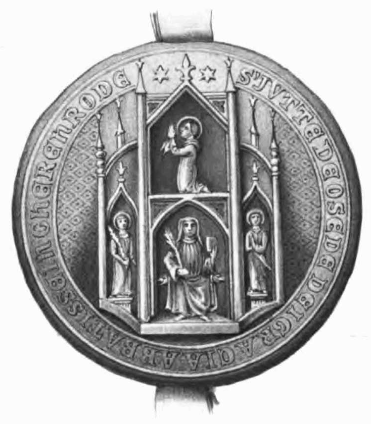 Seal of the Abbess of Gernrode - Jutta von Osede